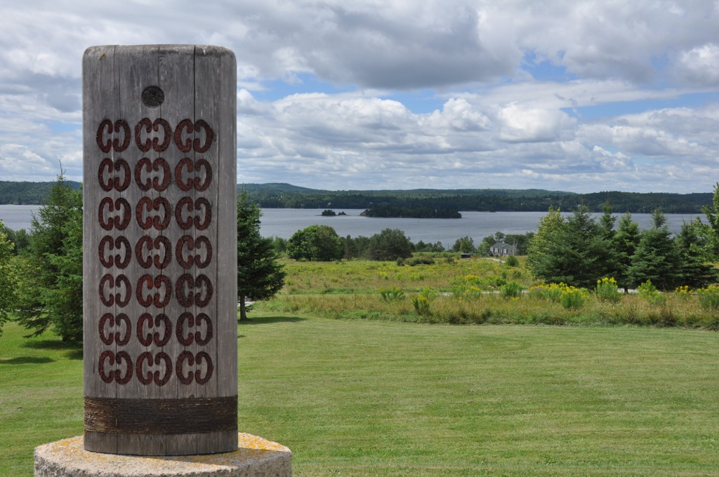 Saint Croix Island, as seen from the New Brunswick side of the St. Croix River. The island was briefly settled in 1603 by Samuel Champlain before the founding of Port Royal, Acadia. It is an International Historic Site recognized by both the United States and Canada. This view is from the interpretive area established on the Canadian side of the river.